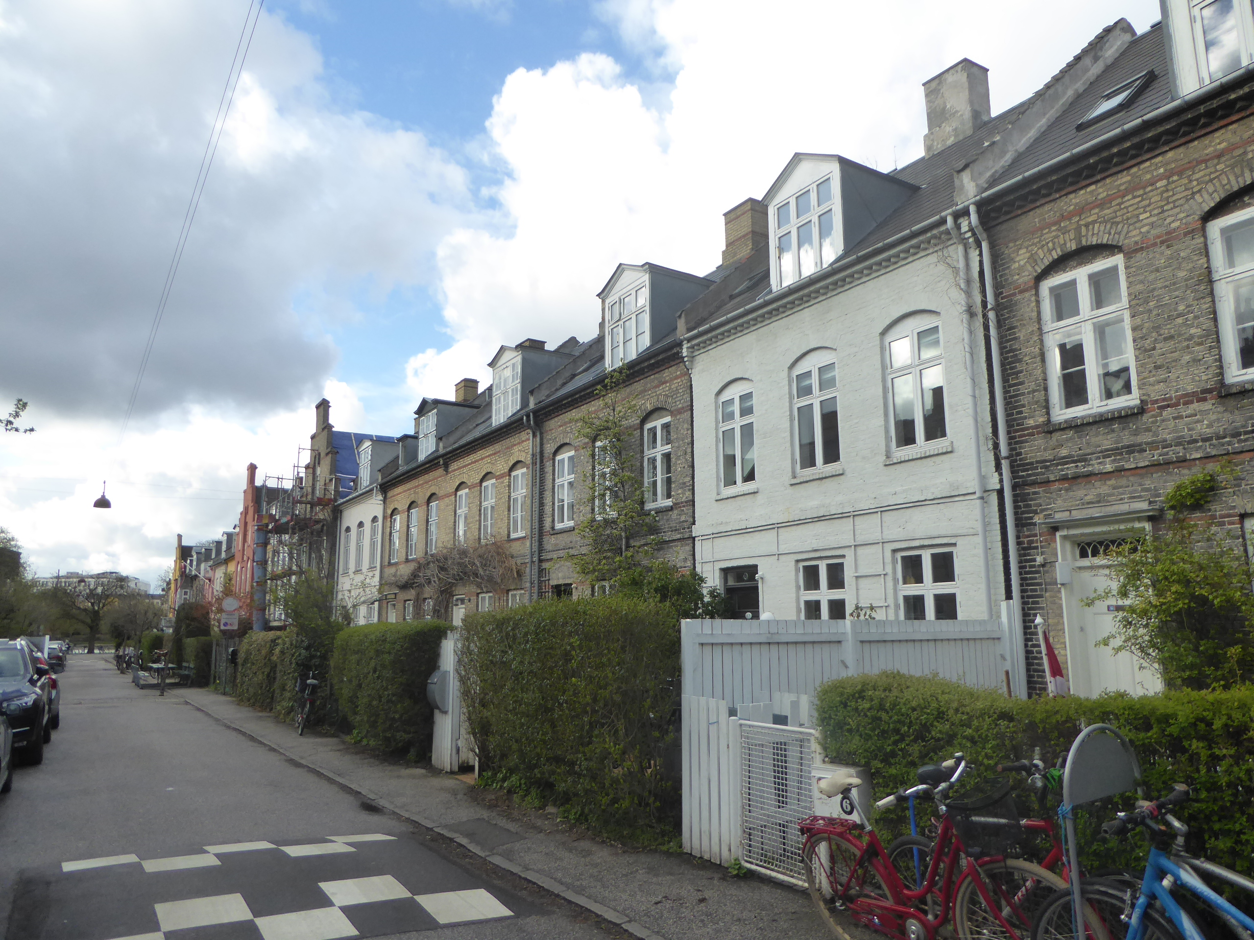 The street Voldmestergade in the neighborhood Kartoffelrækkerne in Østerbro in Copenhagen.